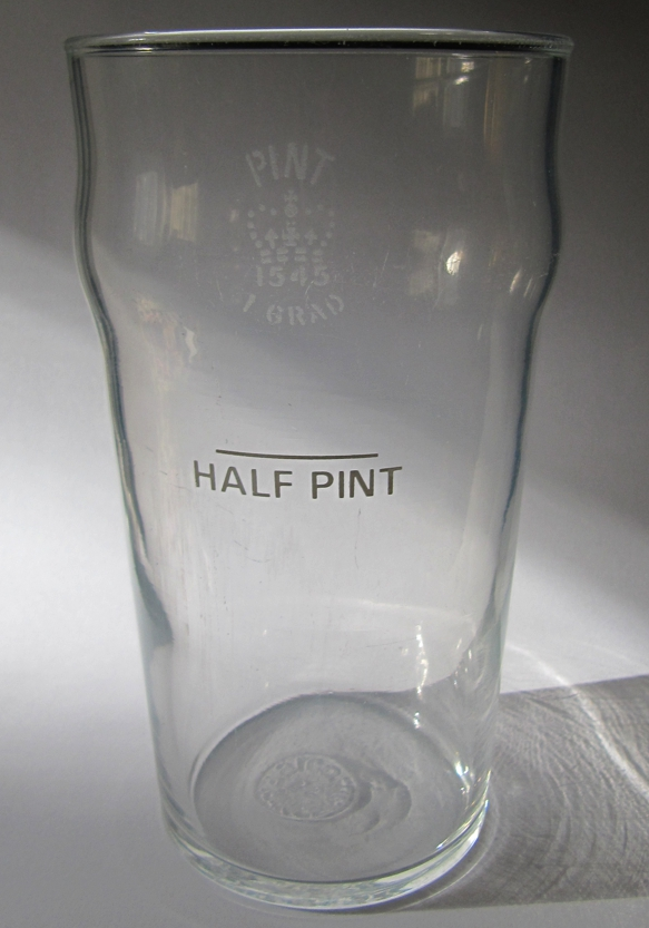 Standard Pub Pint, United Kingdom